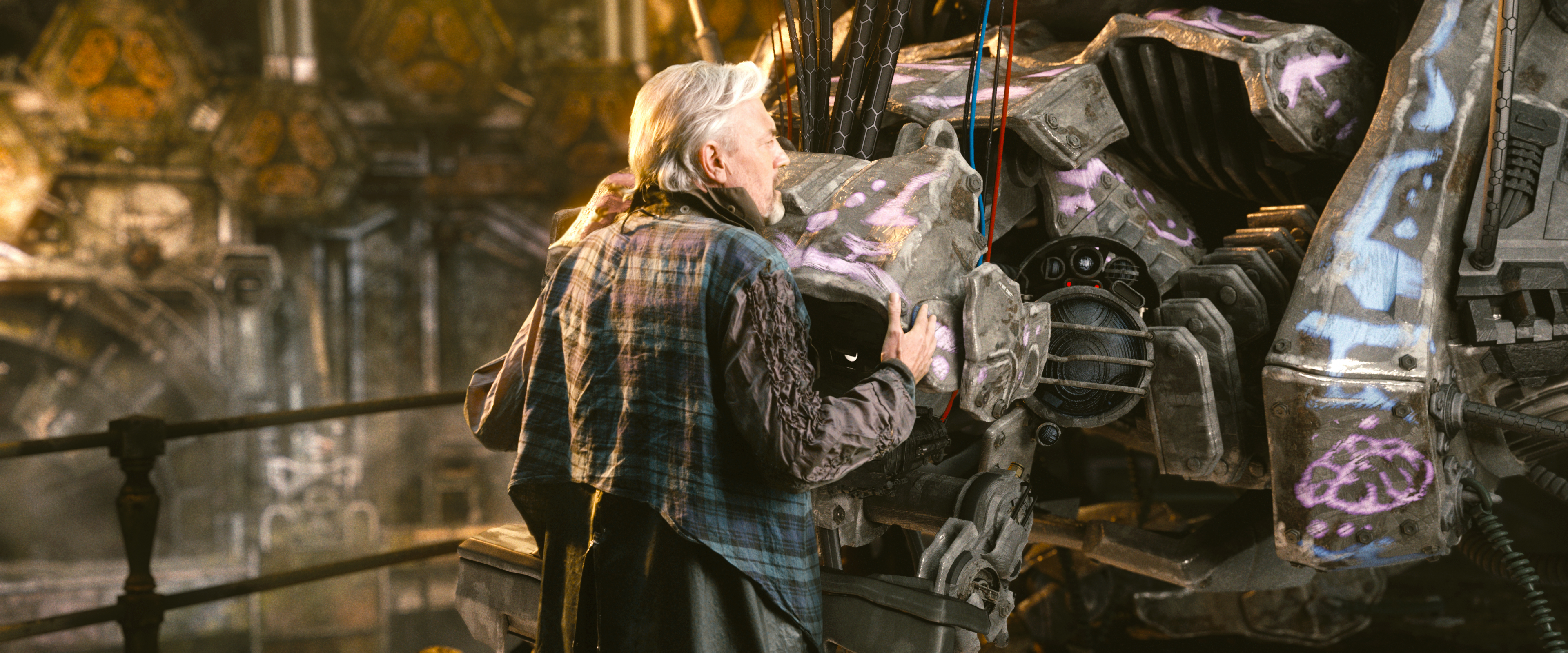 Derek de Lint in the short film "Tears of Steel".